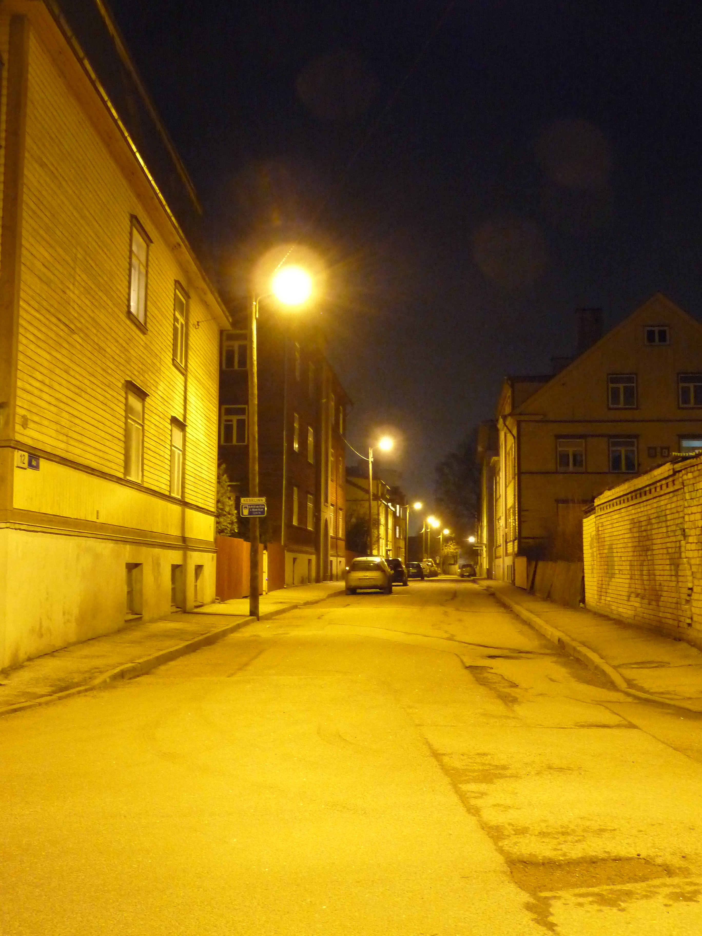 Ao street in Tallinn, Estonia